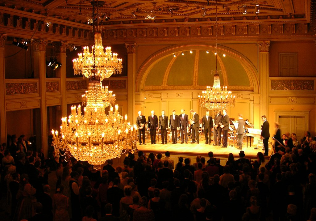 Old Free Masons Lodge, Operaball